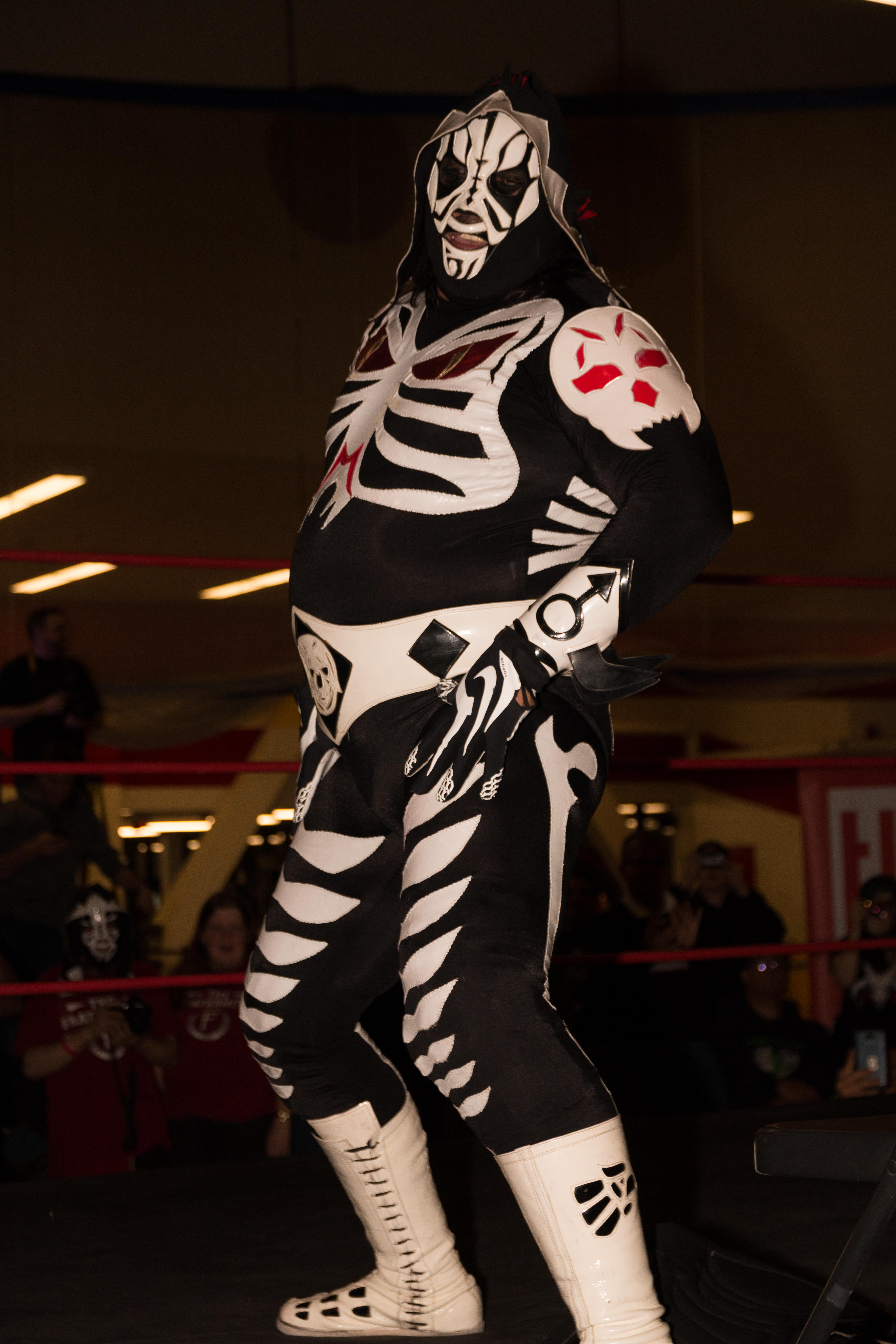 Independent wrestler LA Park at a LuchaTO show at Variety Village in Toronto